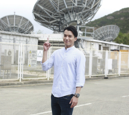 The profile picture of HongKong actor Jackhui